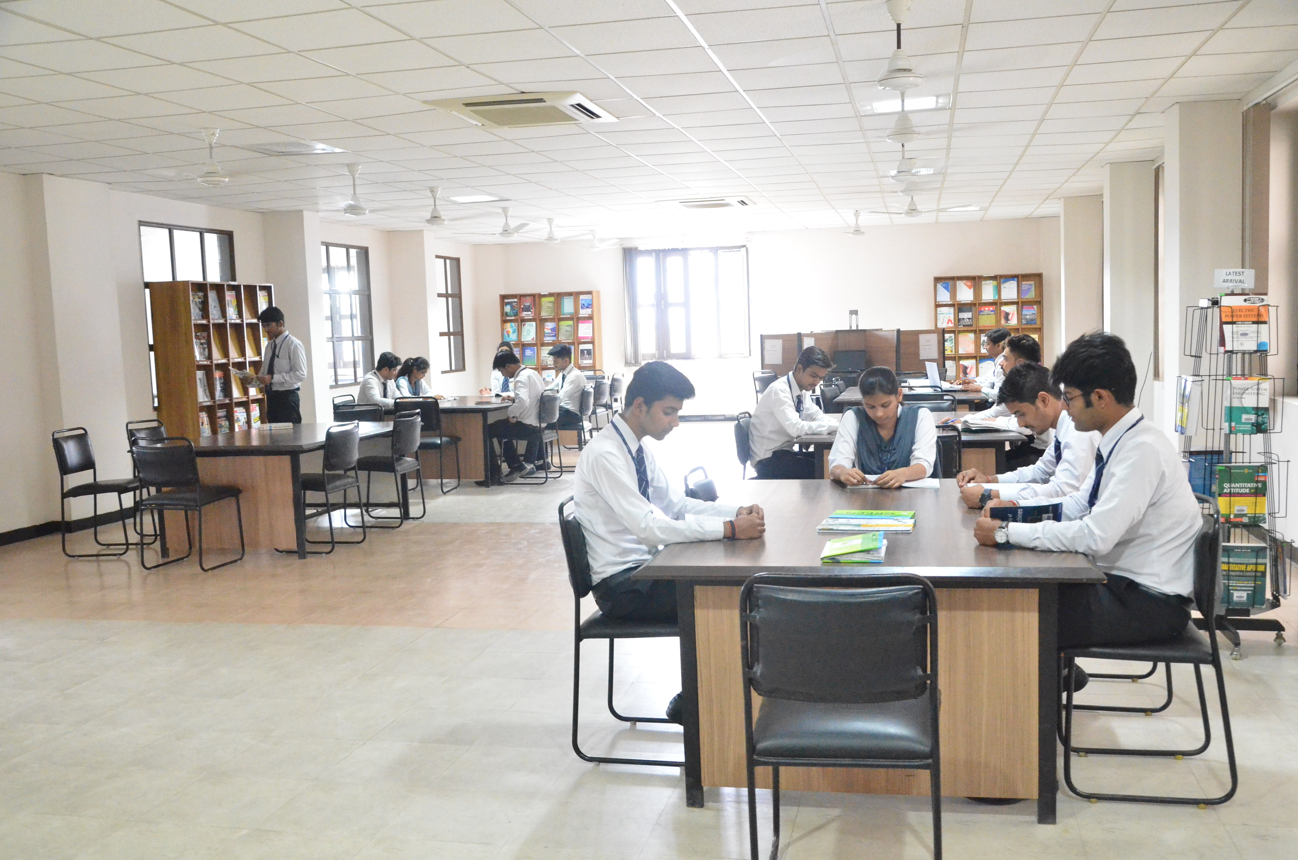 Reading